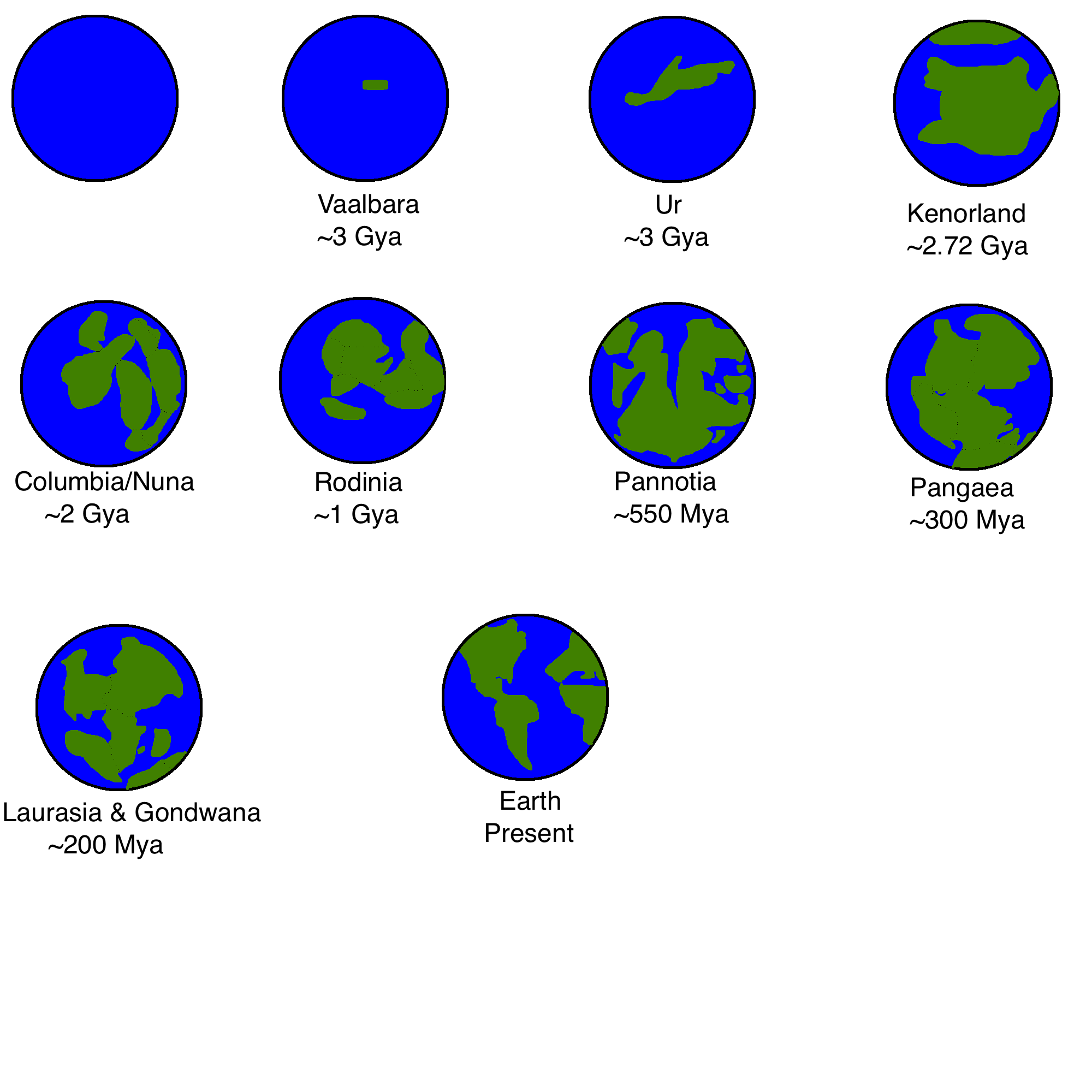 Simplistic representation of the supercontinent cycle.